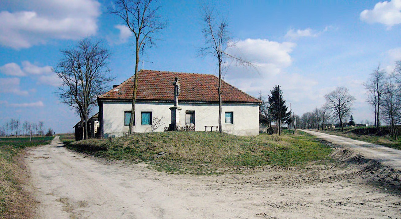 Old road junction to Senta and Šupljak (via Palić, Subotica, Serbia) with the roadside cross from 1912 Srpskohrvatski / српскохрватски: Raskršće starog senćanskog i šupljačkog puta (Palić, Subotica) sa krajputašem iz 1912. godine Српски (ћирилица): Панорама раскршћа старог пута за Шупљак и Сенту (Палић, Србија) са вероватном локацијом старе хумке, на месту крајпуташа из 1912. године